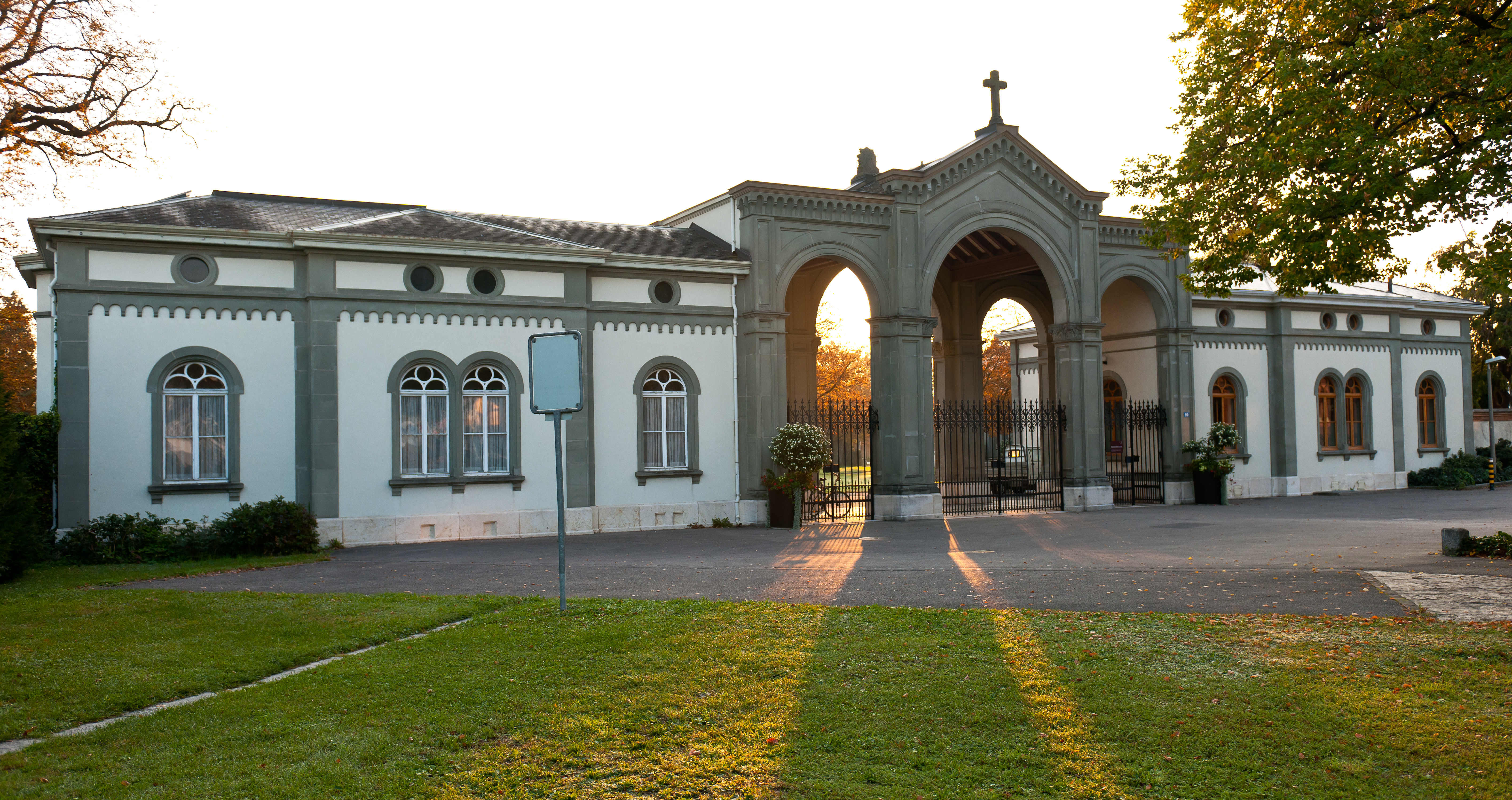 The main gate of the cemetery Wolfgottesacker in Basel